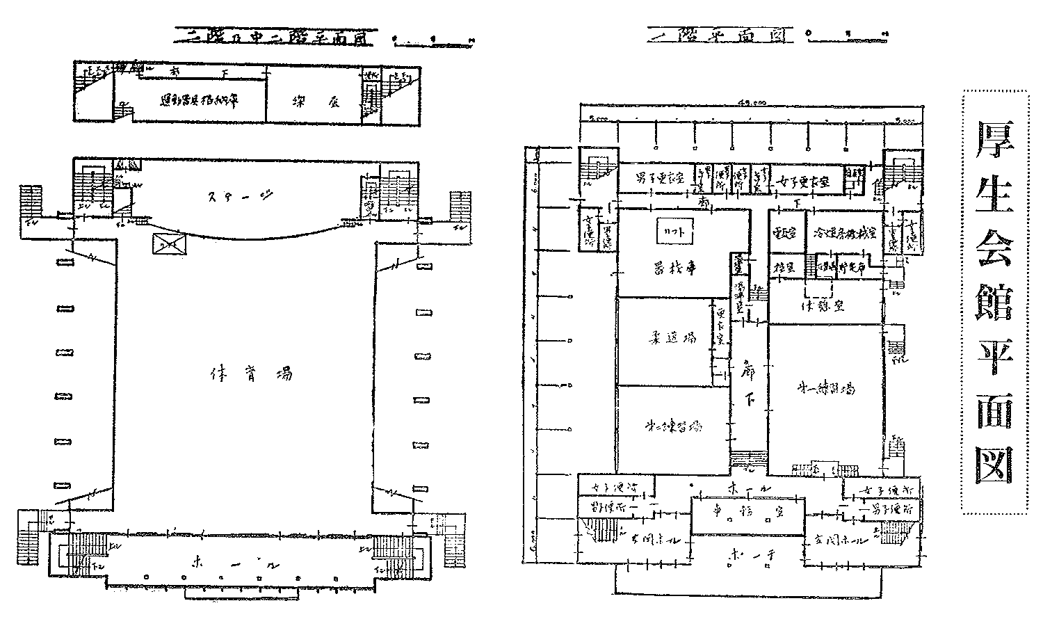 Plan of the Nagaoka City Kōsei Kaikan, "Nagaoka City Municipal Administration News" 1958-11